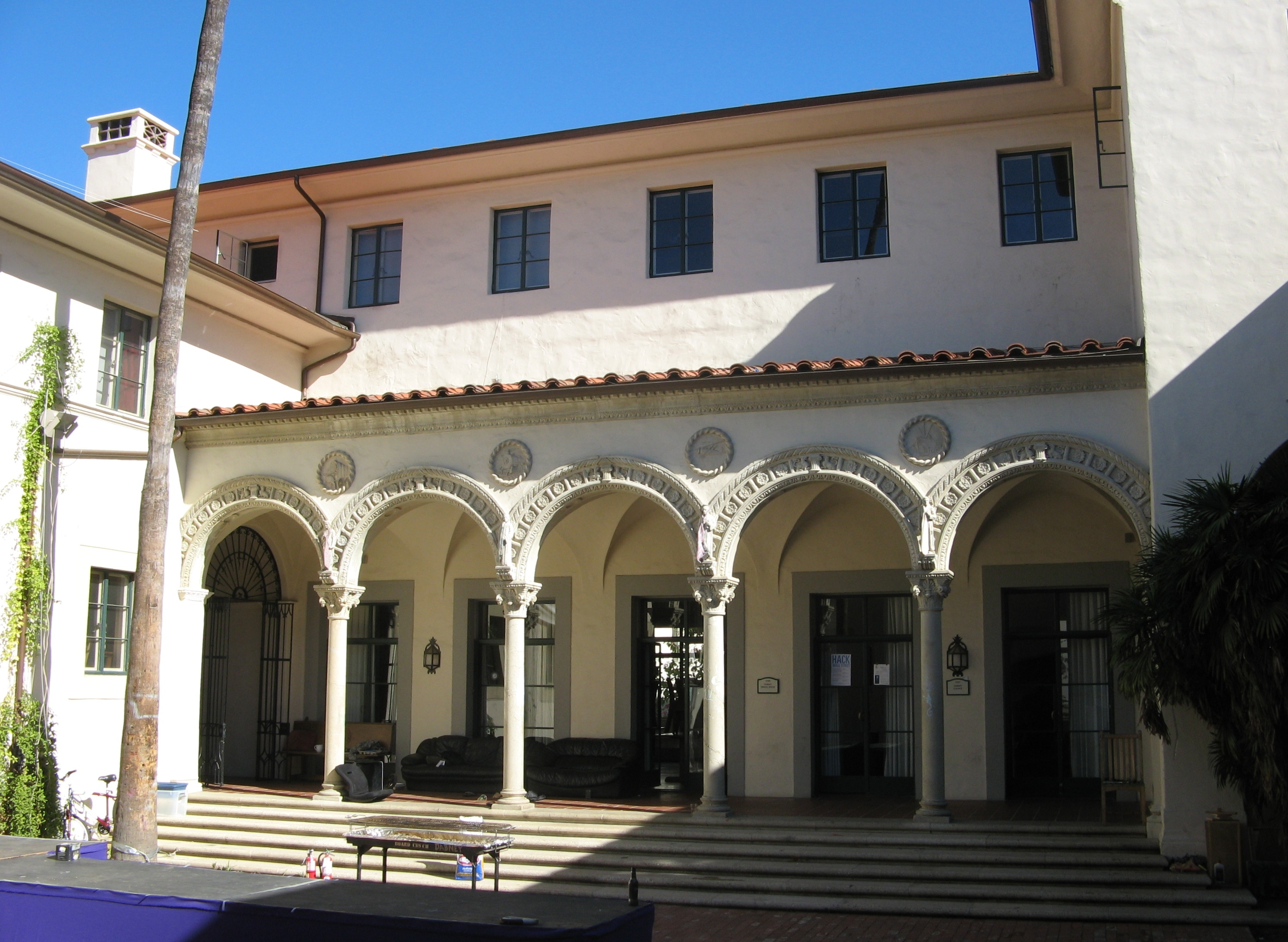 Dabney House courtyard at the California Institute of Technology, in November 2008. The 1928 building, of the South Houses, was designed in the Mediterranean Revival style by architect Gordon Kaufmann.